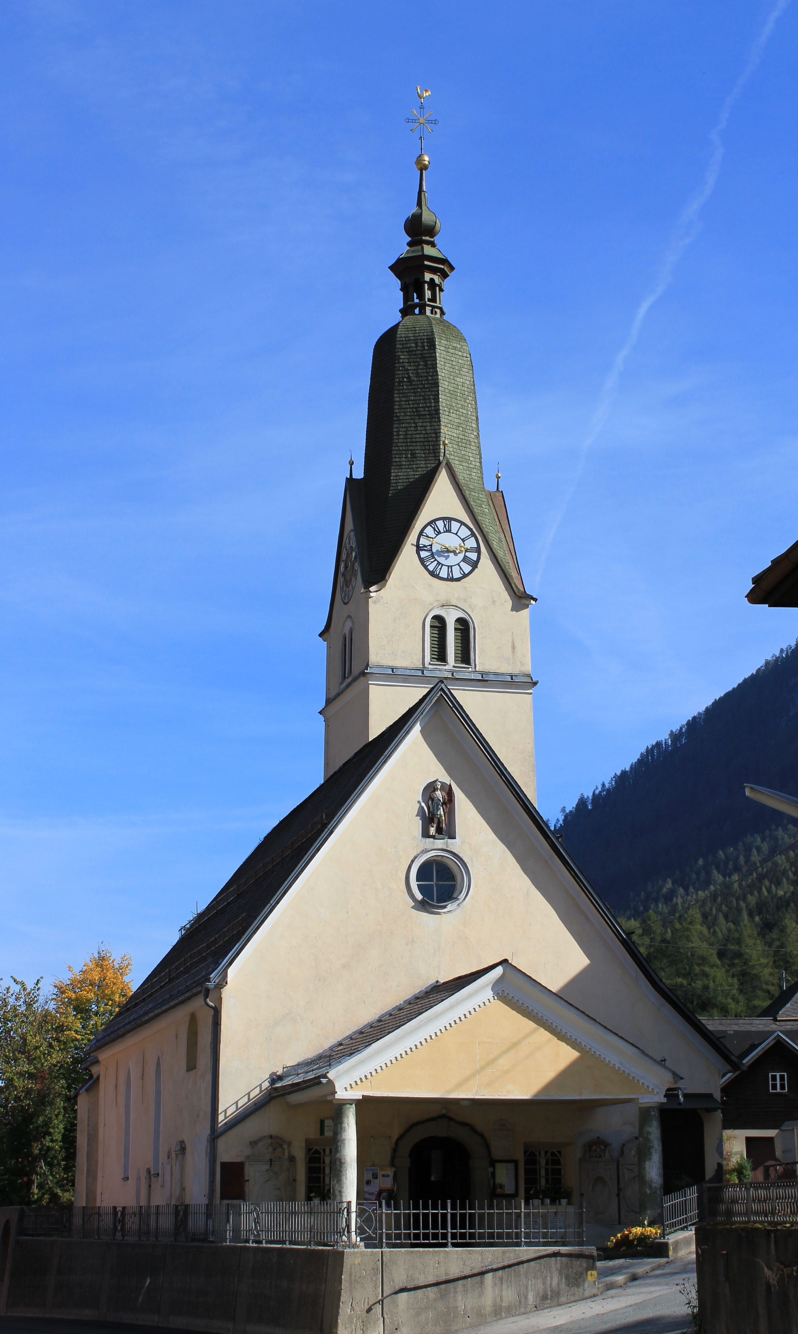 Parrish church St Florian in the community of Bad Bleiberg